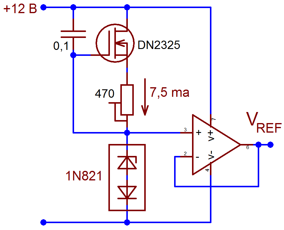 Typical CCS and buffer circuit for a temco-compensated zener reference